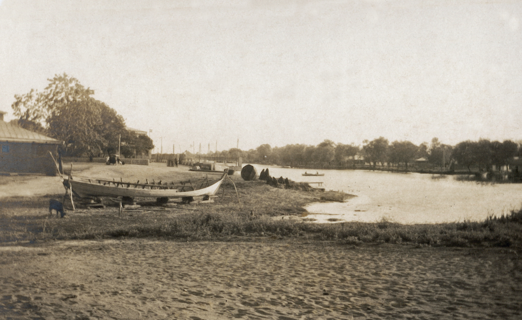 Babolsar (Iran) in the 1930's